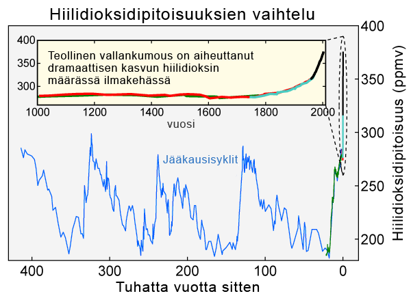 A Finnish version of a figure showing the variations in concentration of carbon dioxide (CO2) in the atmosphere during the last 400 thousand years.